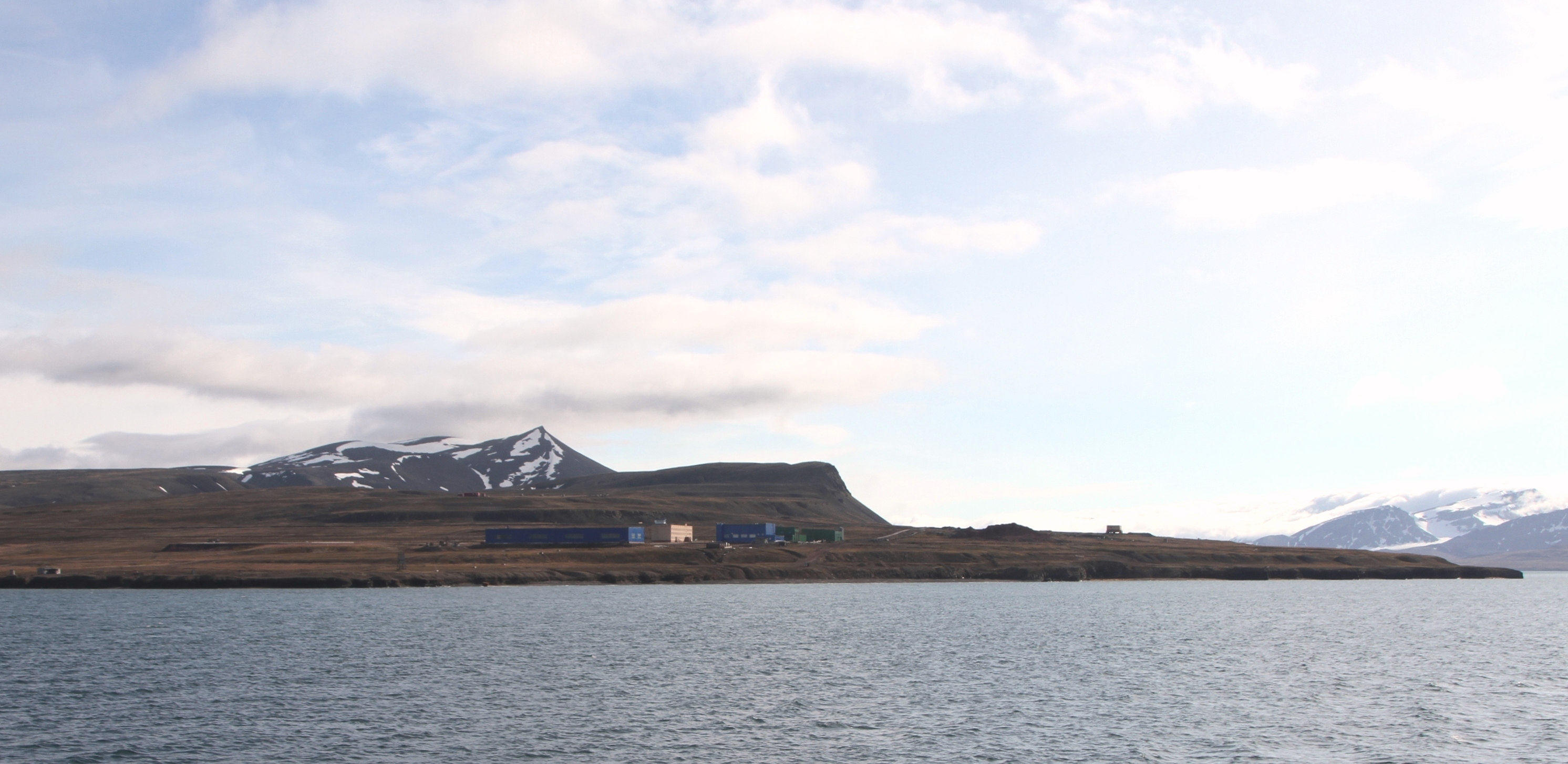 Image of Heerodden with Barentsburg Heliport from the north.